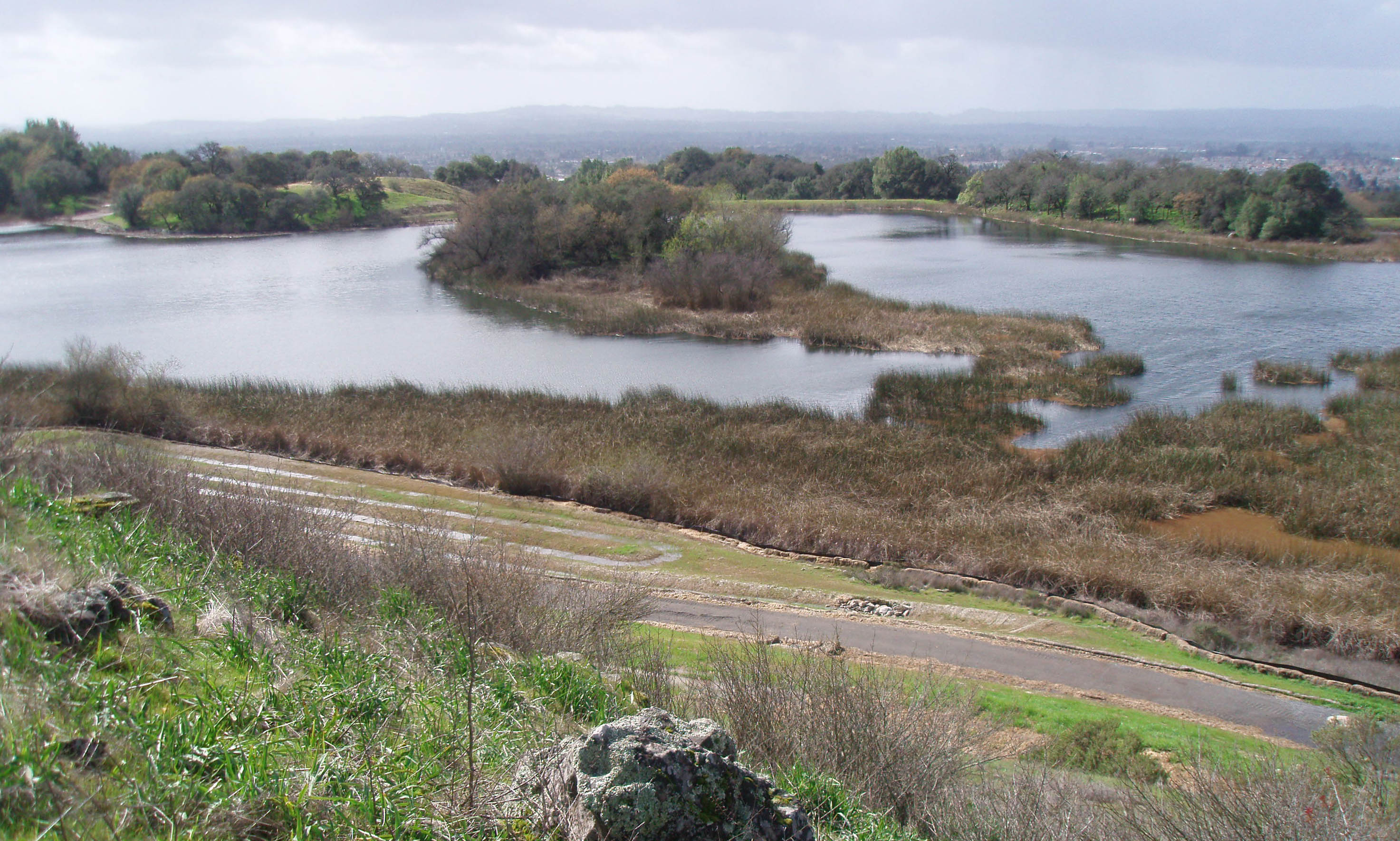 photographer: self